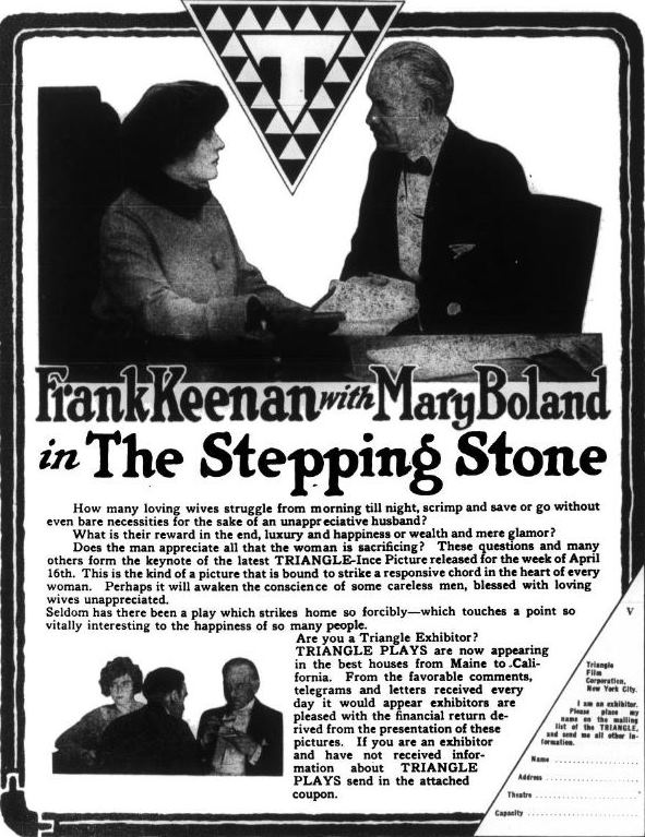 Advertisement for the American drama film The Stepping Stone (1916) with Mary Boland and Frank Keenan, on page 26 of the April 14, 1916 Variety.